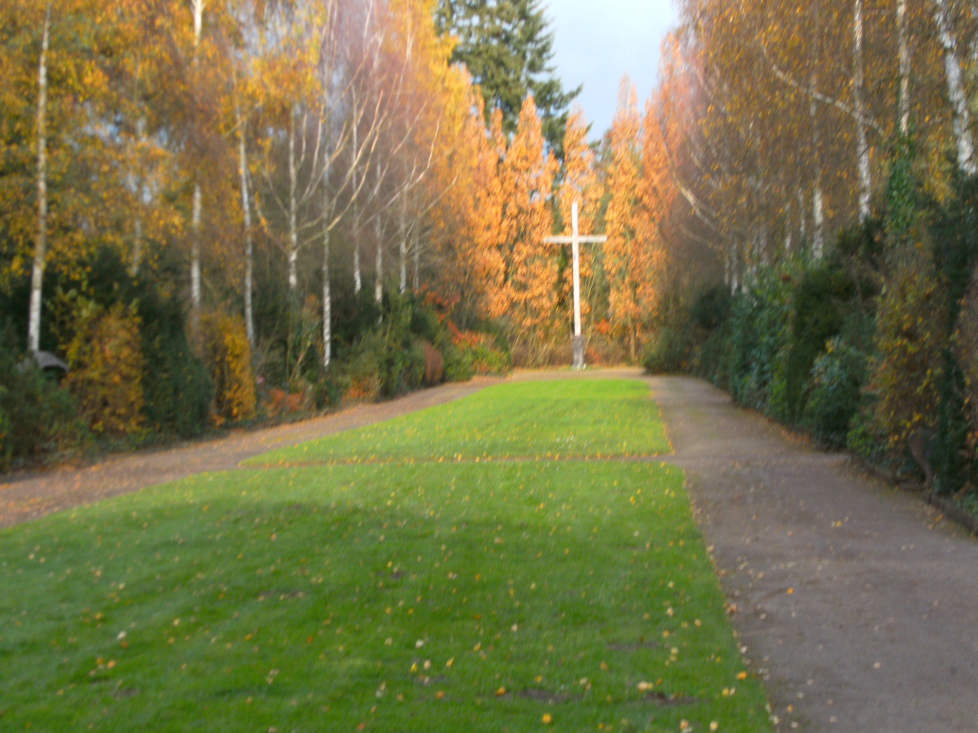 Cemetery Waldhusen (Friedhof Waldhusen) in Lübeck-Kücknitz: Wooden high cross for the people, who died in and after World War II.